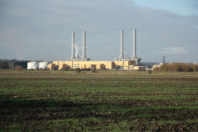 Brigg Power Station, near to Brigg, North Lincolnshire, Great Britain. Gas-fired power station opened in December 1993, operated by Centrica